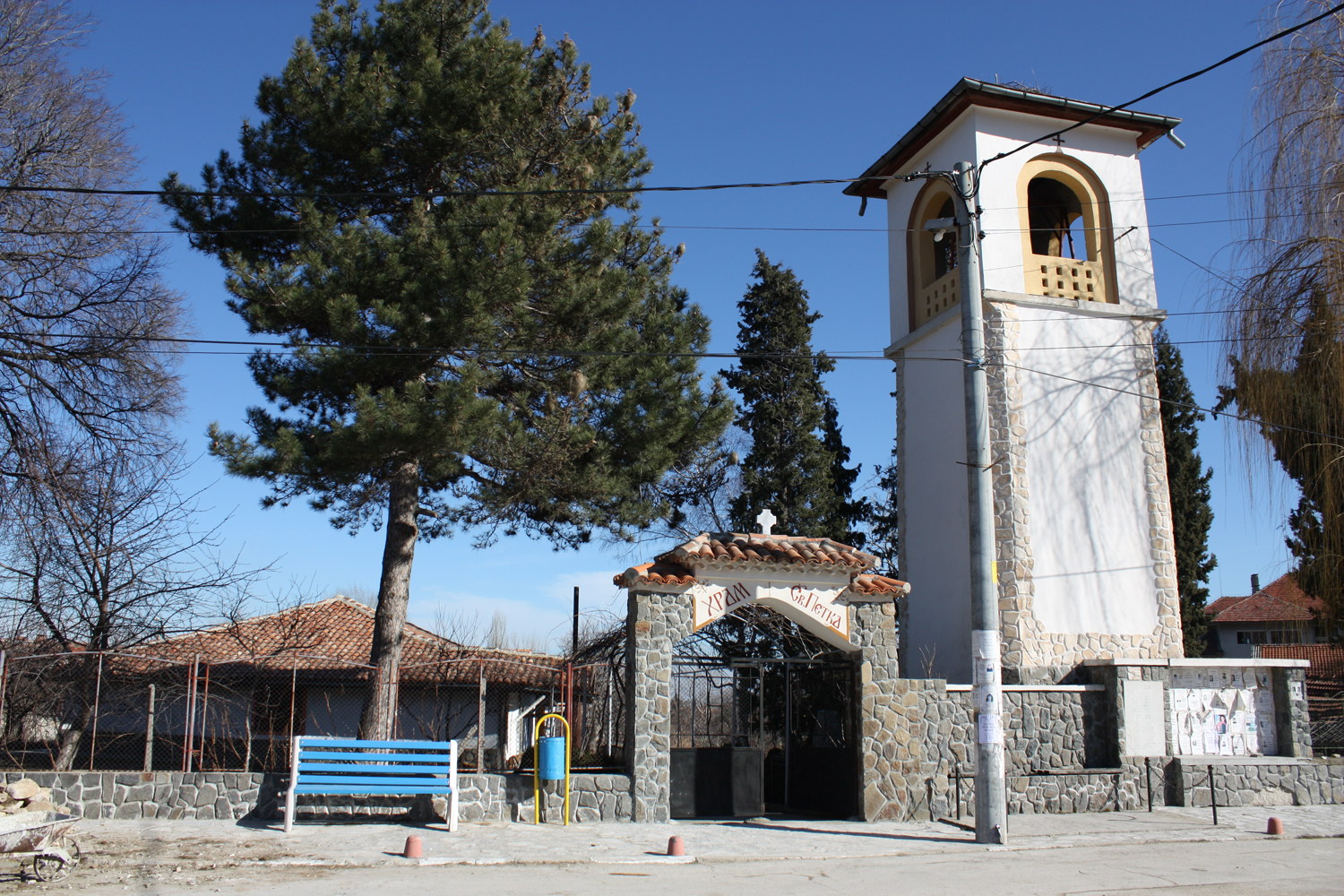 Semchinovo church St.Petka